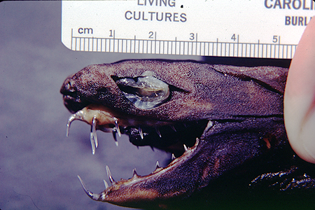 Viper dogfish (Trigonognathus kabeyai) from Hawaii